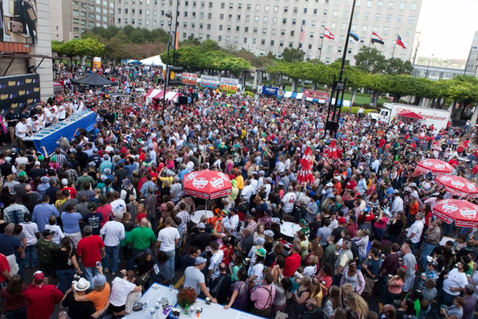 Crowds enjoy the World's Largest Brat Eating Contest at Oktoberfest Zinzinnati 2012.